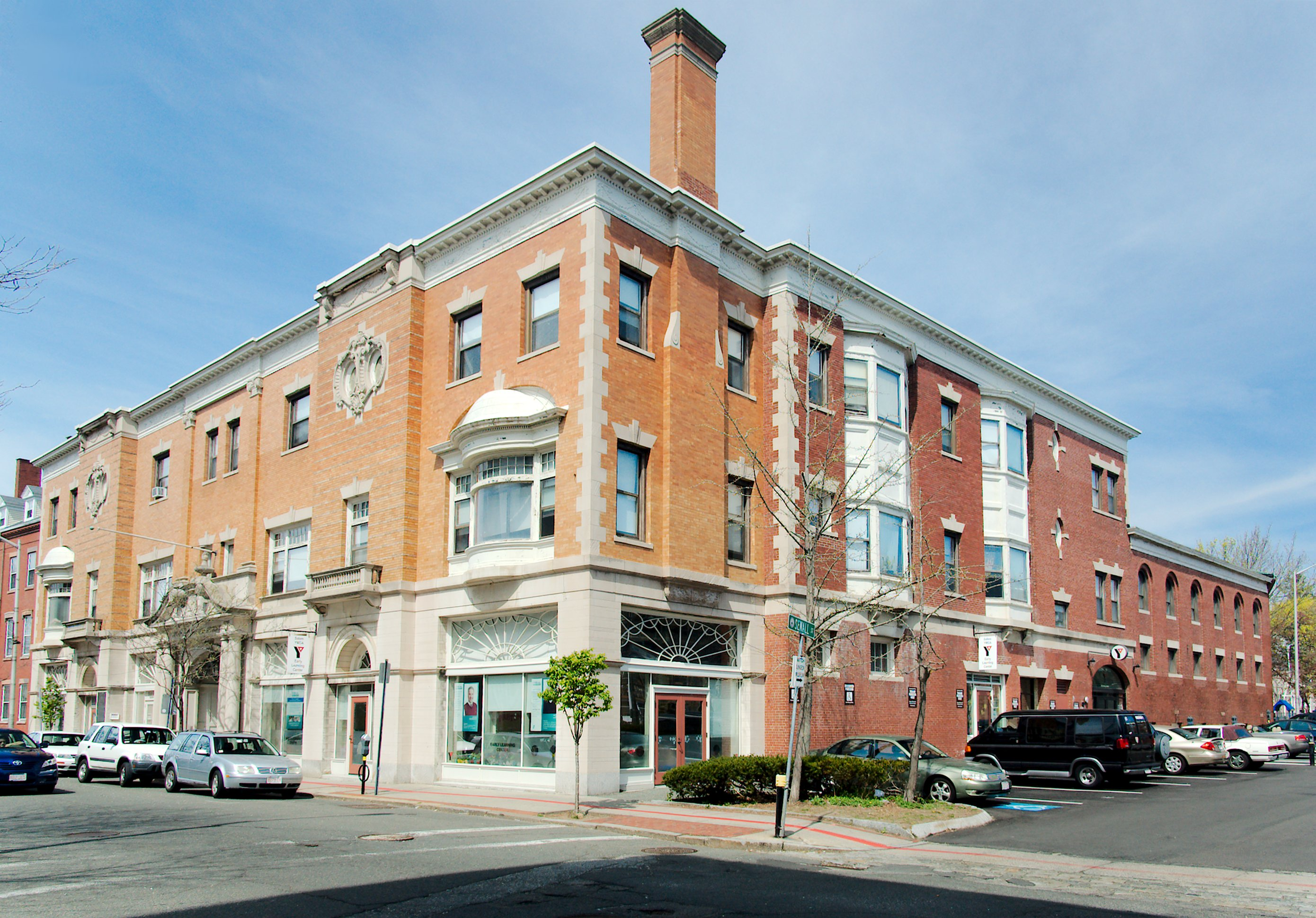 A full view of the historic YMCA in Salem, Massachusetts